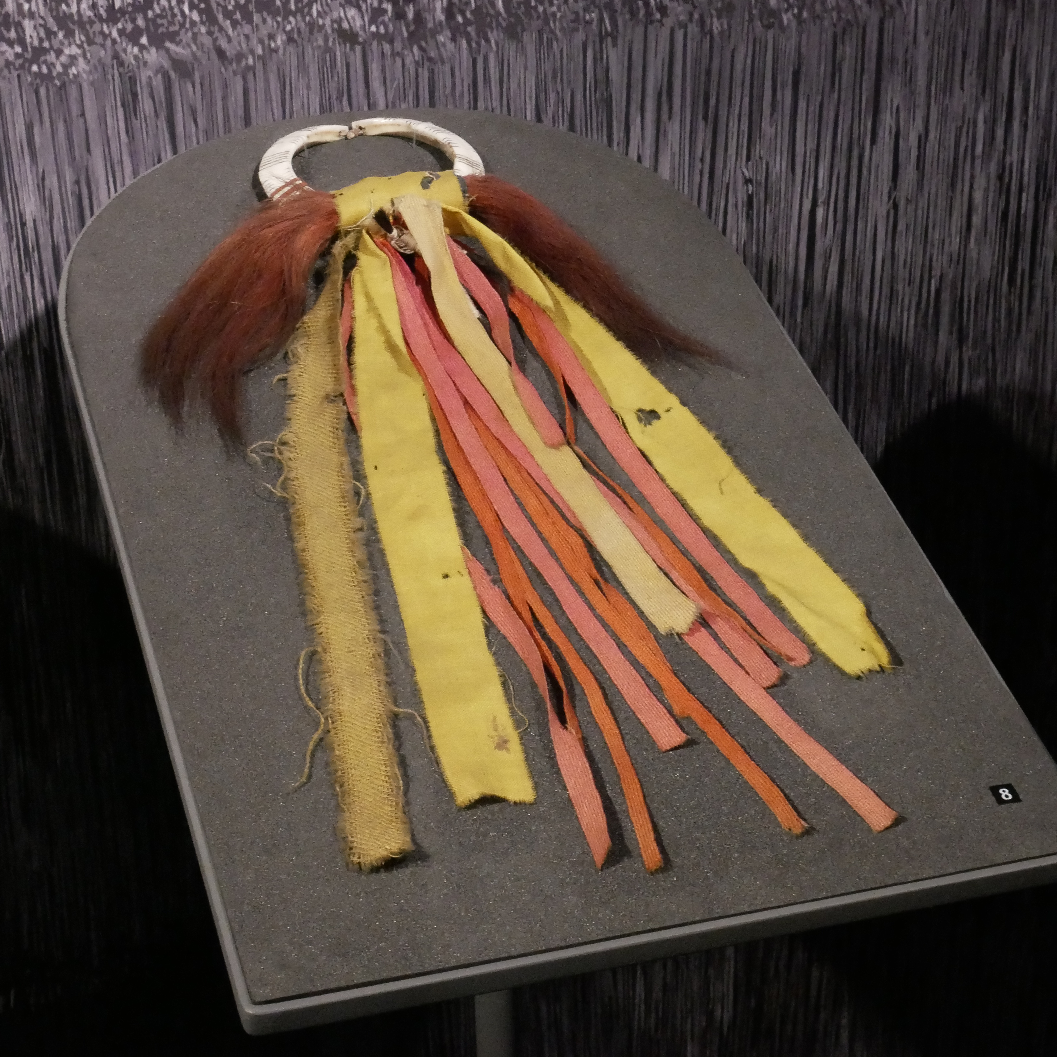 鄒族達邦社（臺南州嘉義郡蕃地達邦社）男子山豬牙臂環，臺北市中正區城內次分區黎明里